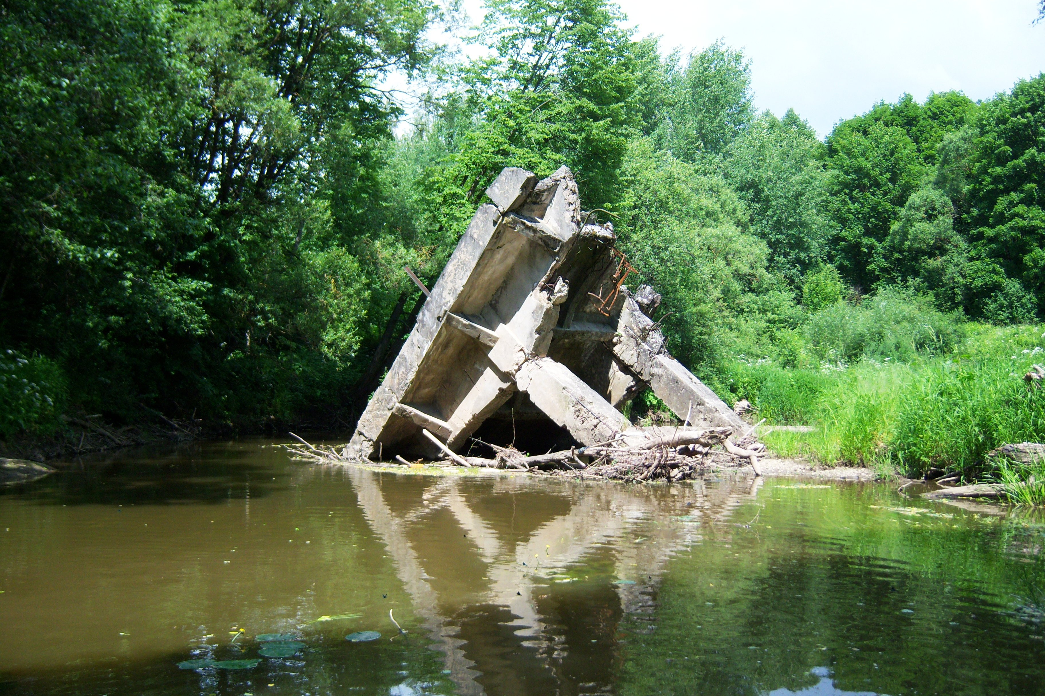 Jiesia River. Bridge ruins. Kaunas district. Lithuania